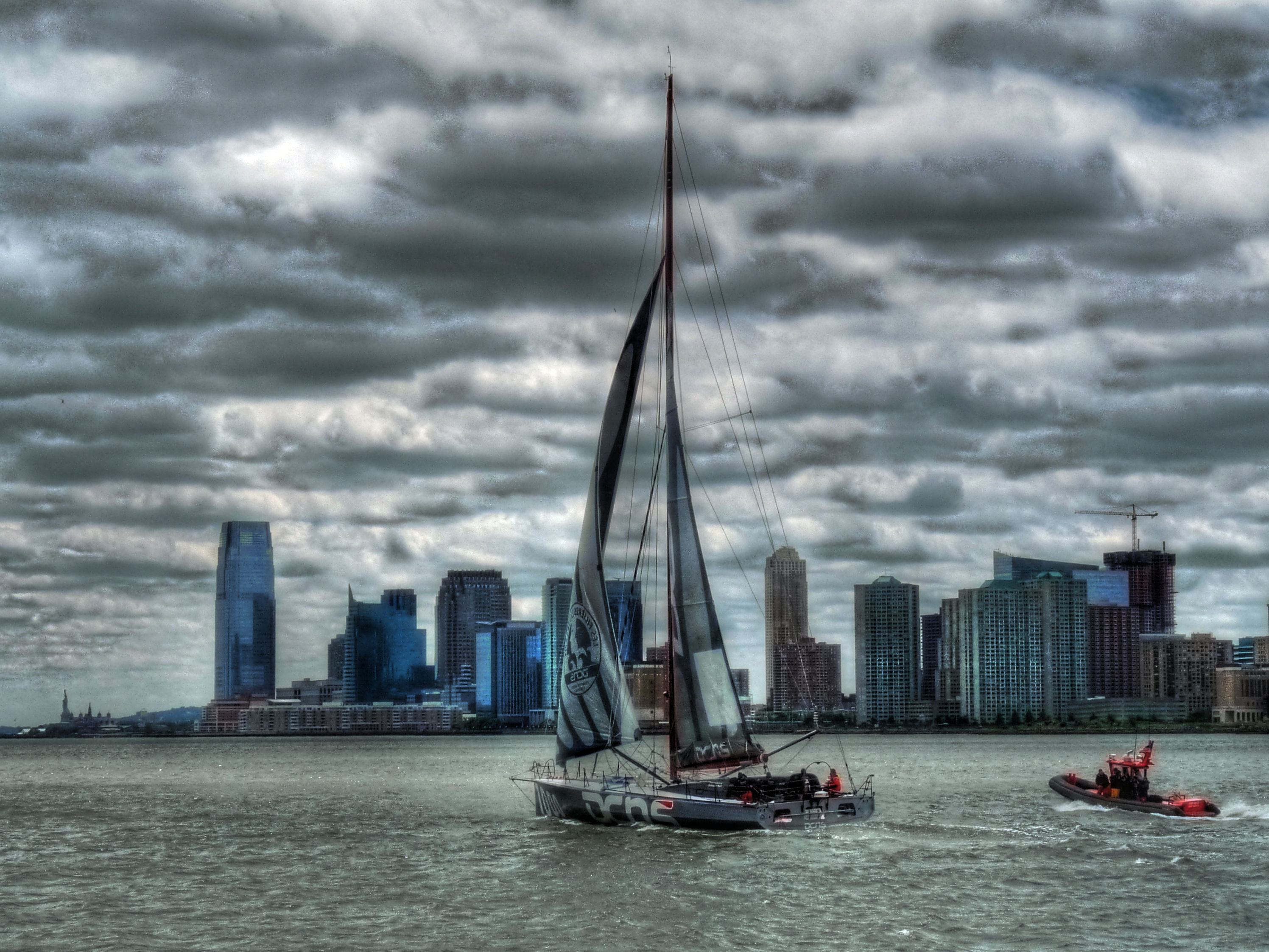 Jersey City skyline behind and Statue of Liberty on the far left horizon.